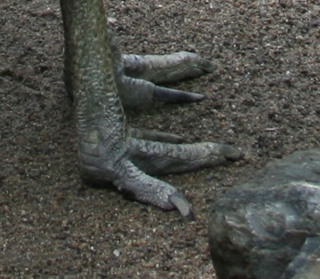 Detail of other version